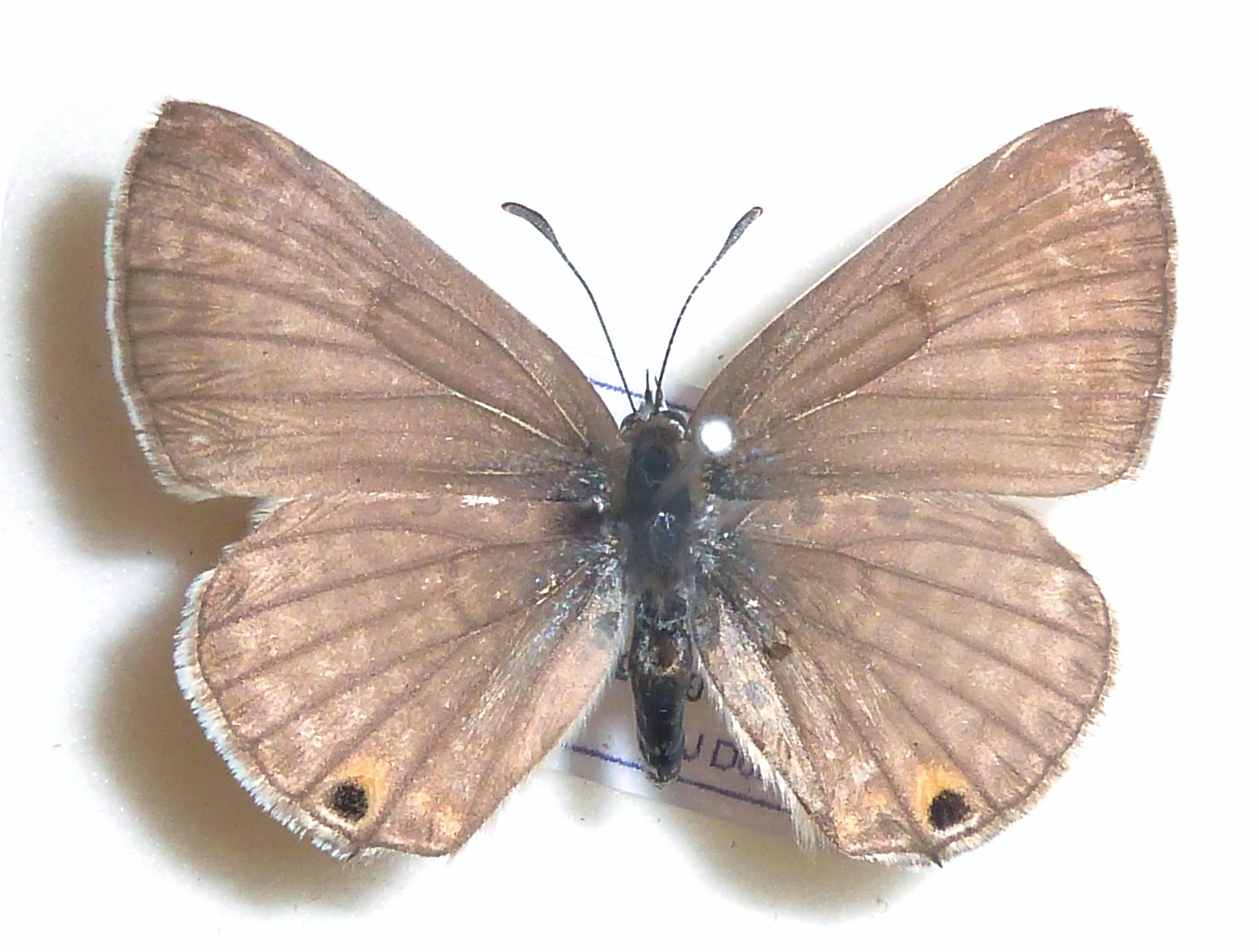 Twin-spot blue collected by J Dobson